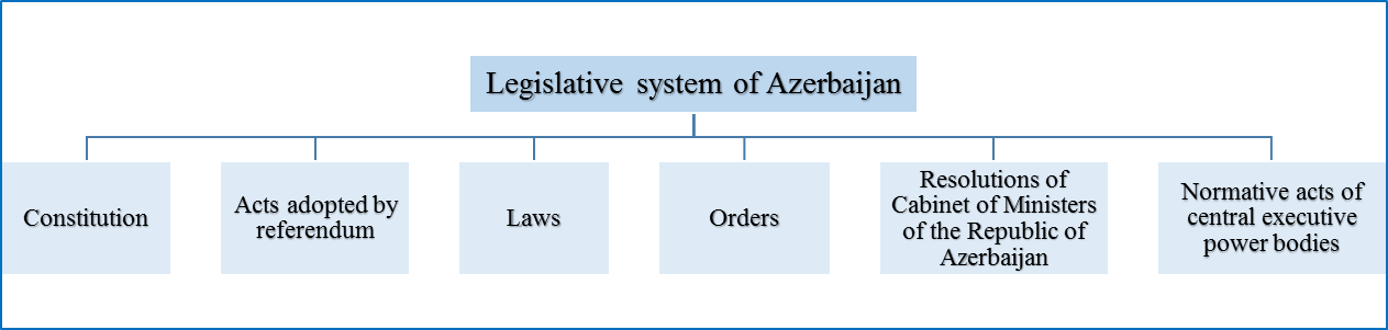 extracted from Article 148 of the Constitution of Azerbaijan